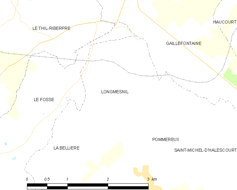 Map of French municipality Longmesnil